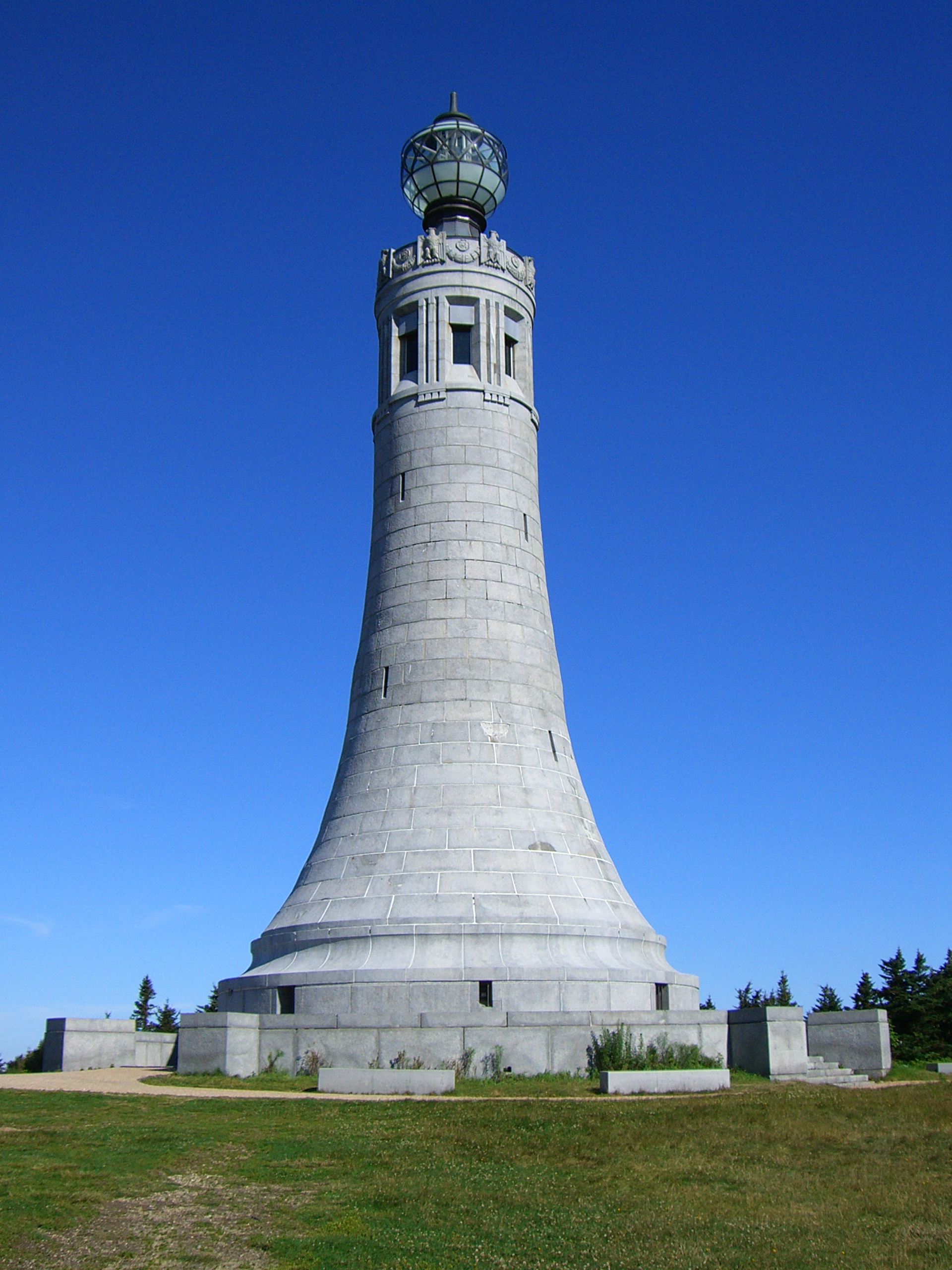 Mount Greylock war memorial